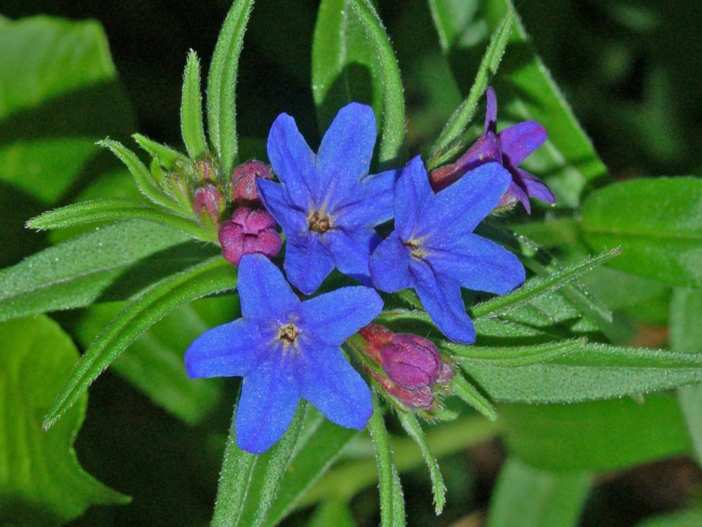 Buglossoides purpurocaerulea - Val Noci, Genova, Italy